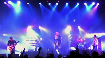 Simple Minds live - Jim and Charlie